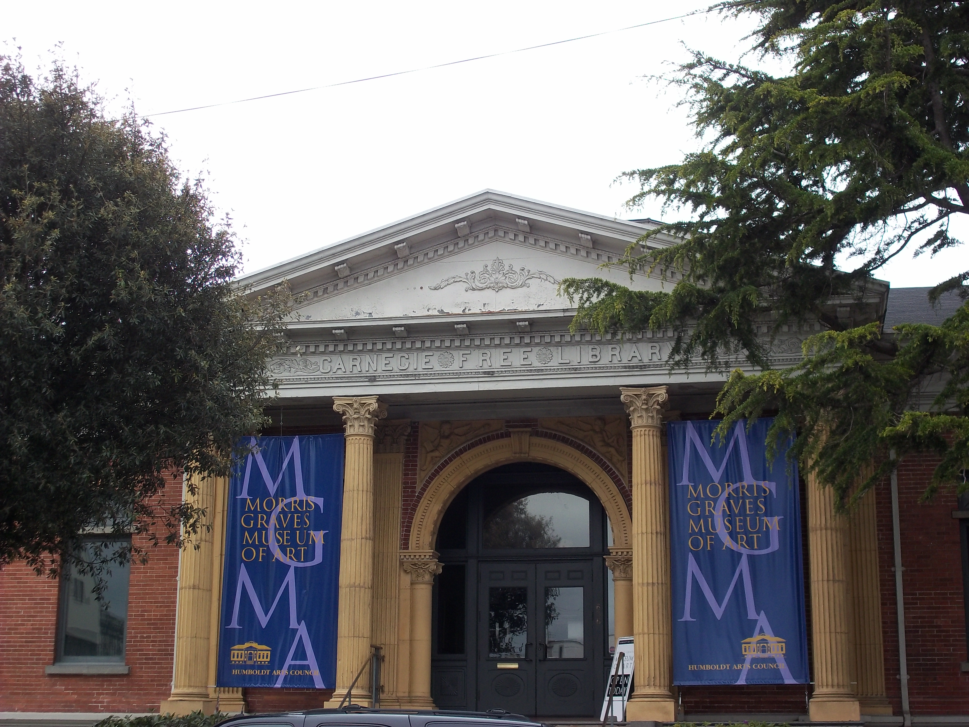 Detail photograph of the building's front facade. The Morris Graves Museum in Eureka, CA. Building was formerly a Carnegie Free Library. Building is on the National Register of Historic Places..